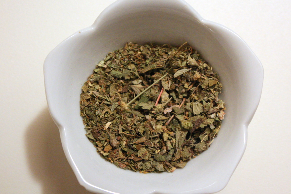 Mexican oregano: From Wikipedia: "Mexican Oregano (Lippia graveolens) is not of the mint, but of the closely related vervain family (Verbenaceae), including e.g. the Lemon Verbena (Aloysia citrodora). It is a highly studied herb that is said to be of some medical use and is common in curandera (female shamanic practices) in Mexico and the Southwestern United States. Mexican oregano has a very similar flavour to oregano, but is usually stronger."